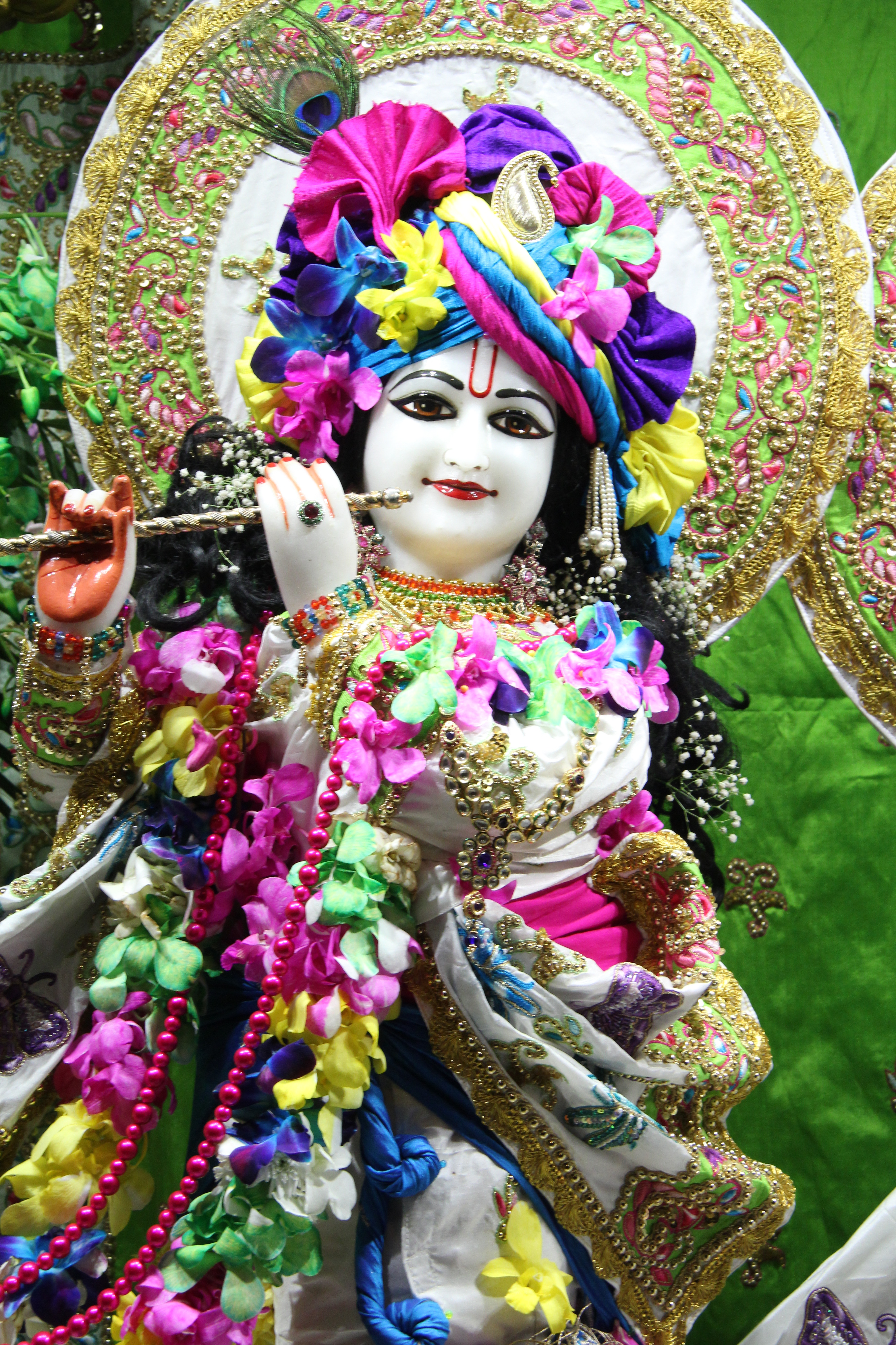 Sri Radha Rasabihariji -ISKCON Juhu